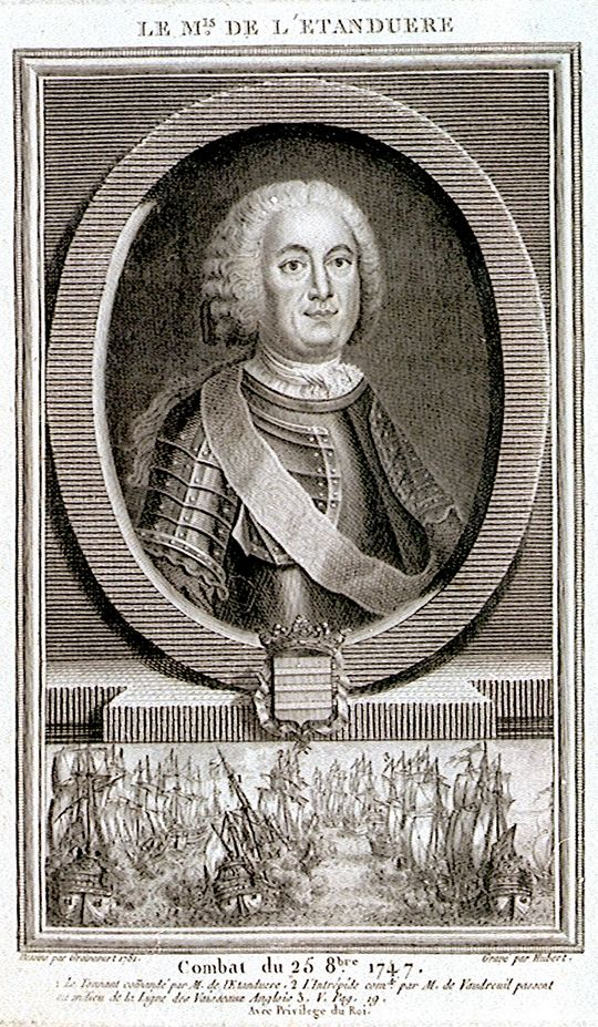 French engraving with a portrait of Monsieur de Létanduere and representation of the second battle of Cape Finisterre (October 1747).